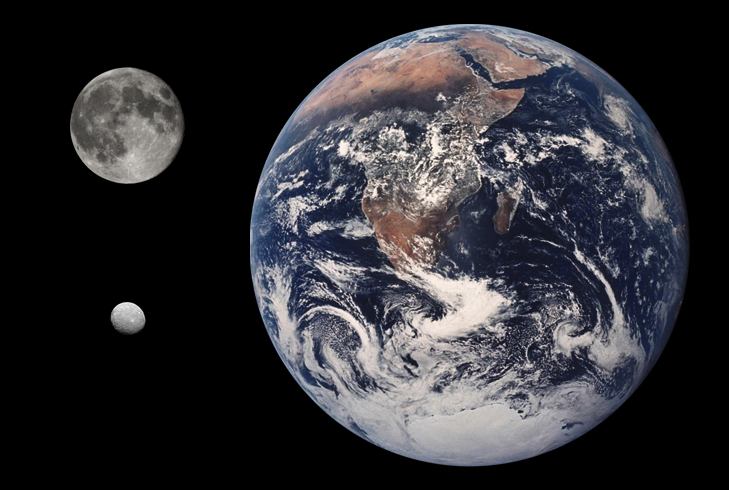 Diameter comparison of the dwarf planet–asteroid Ceres with the Moon and Earth. Scale: Approximately 29 km per pixel.